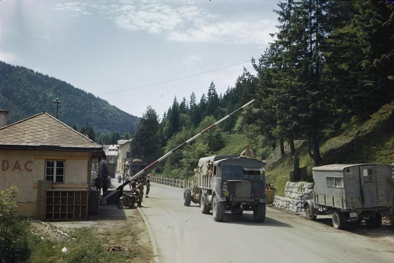 The Eighth Army in the Klagenfurt Area of Austria, May 1945 British military transport carrying supplies for the Eighth Army, passes the frontier station on the border between Italy and Austria. A British military policeman gives guidance to drivers as they pass through.